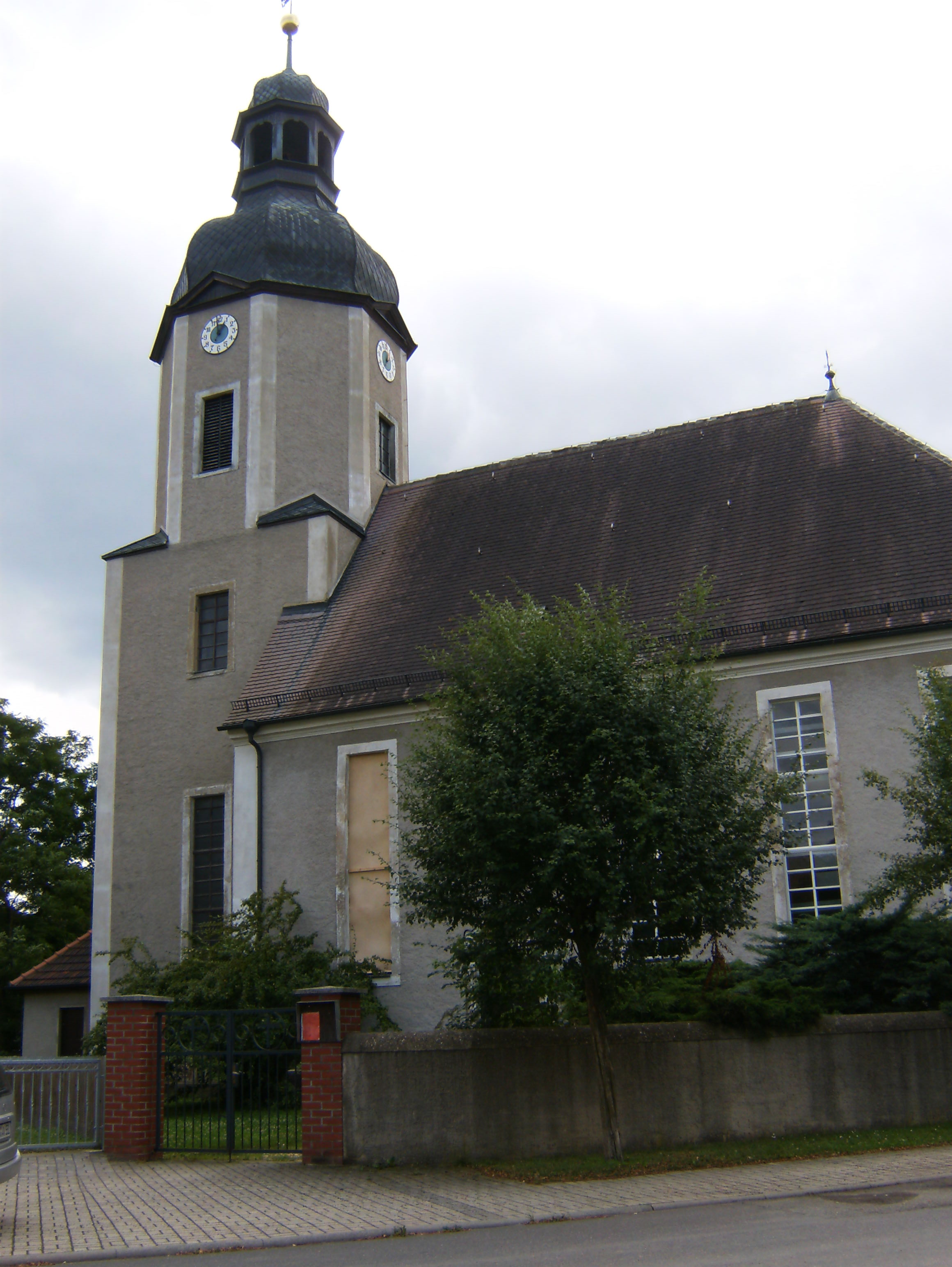 Caaschwitz, village church.